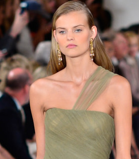 Russian model Ekaterina Grigorieva on Ralph Lauren SS 15 Show